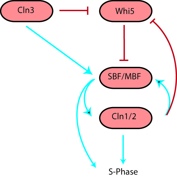 System of genes that regulate the entry into Sphase